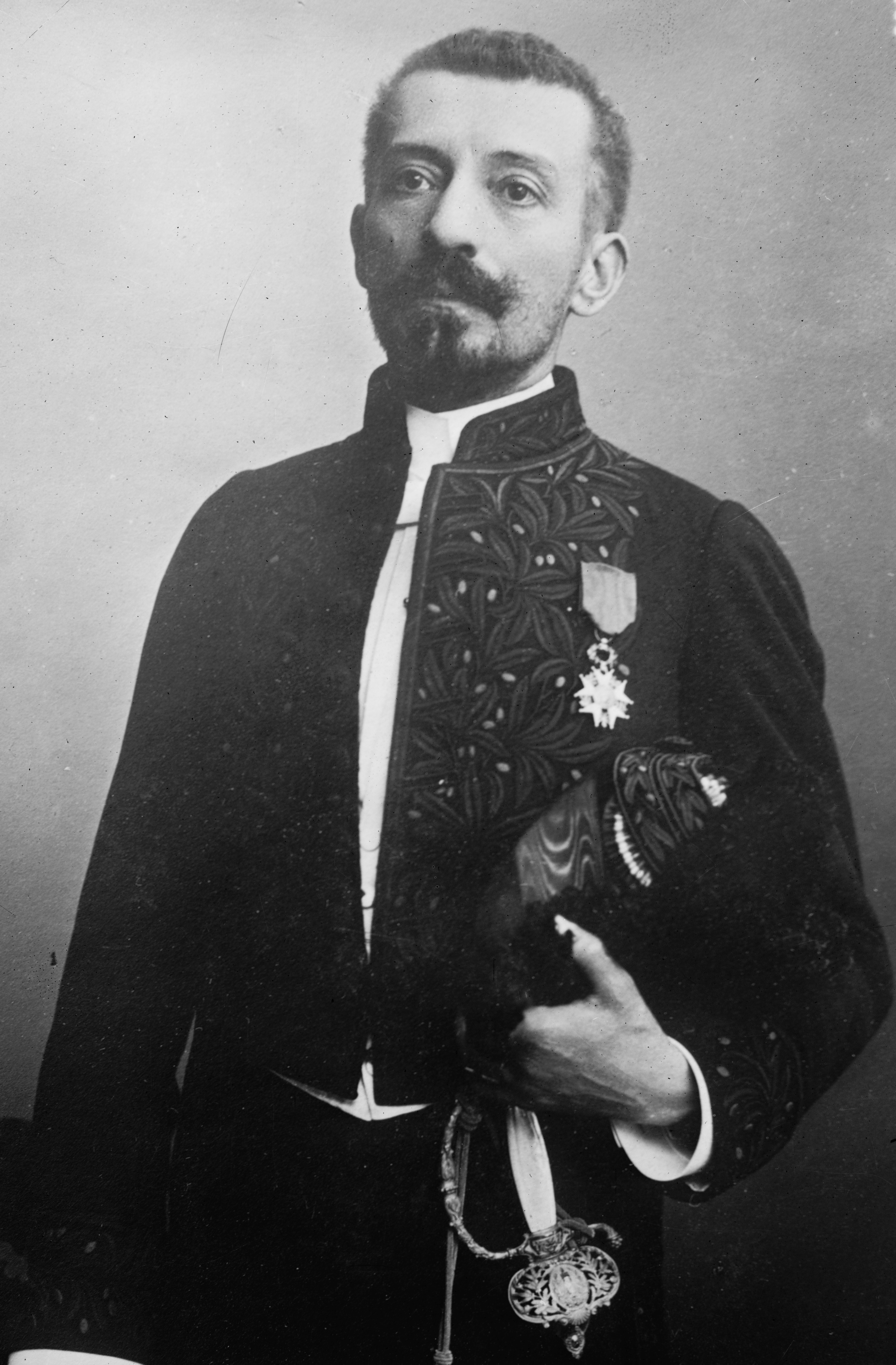 French writer Pierre Loti (1850-1923)